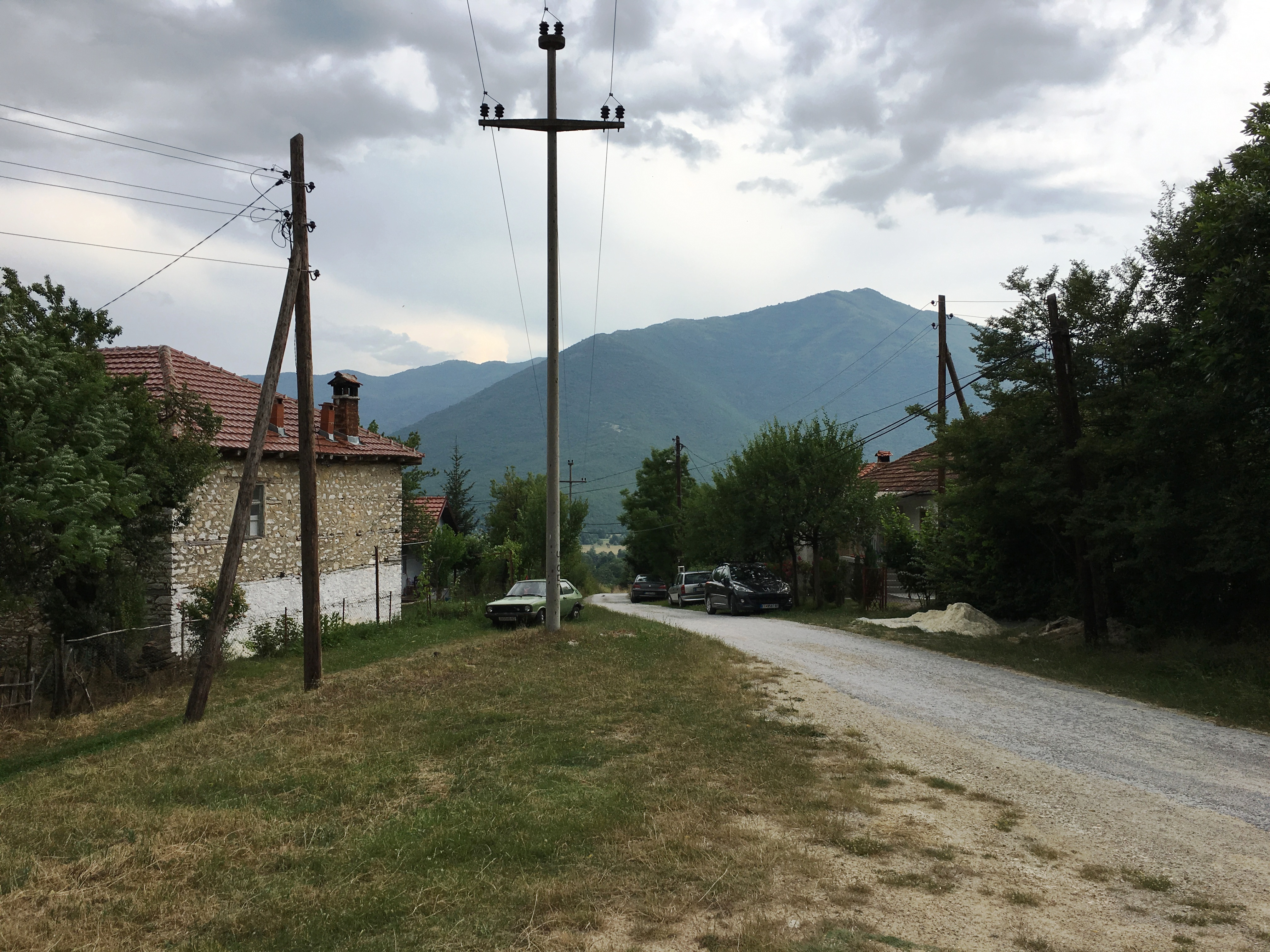 Houses in the village of Ižište